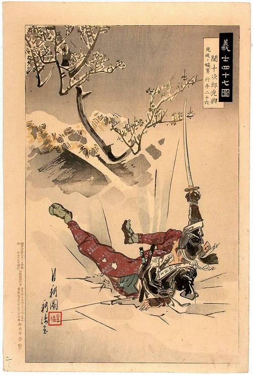 Ronin are masterless samurai. Chushingura is the true story of 47 samurai who became masterless in 1701, after their lord had been forced to commit ritual suicide (seppuku) for assaulting a court official who had insulted him. They avenged him by killing the court official after patiently planning for over a year. They were themselves then forced to commit seppuku.